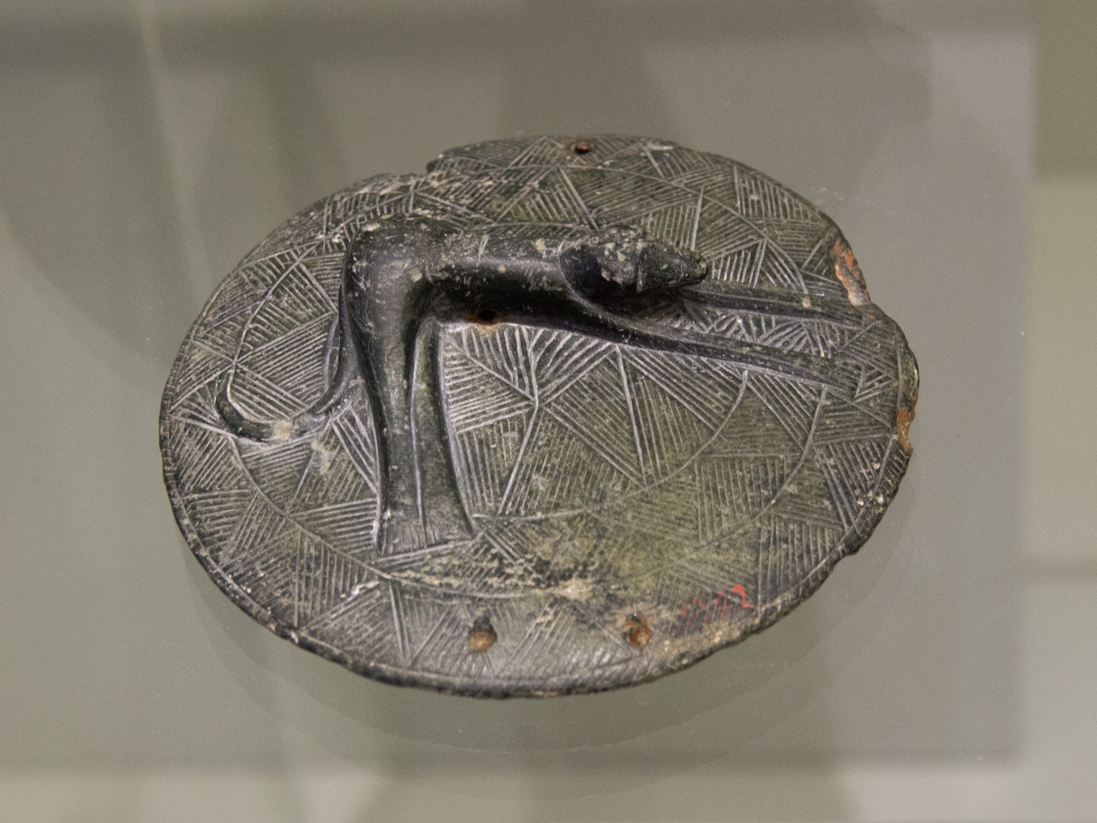 Minoan pyxis lid animal-shaped (dog-shaped) handle, covered with incisions forming triangles. (This decorative motif was common in the Cyclades in the Early Bronze Age.) Early Bronze Age, about 2400 BC, from Mochlos. Green steatite. (A similar pyxis with lid found in the Palace of Zakros appears to have been crafted by the same artist.) Archaeological Museum of Heraklion.